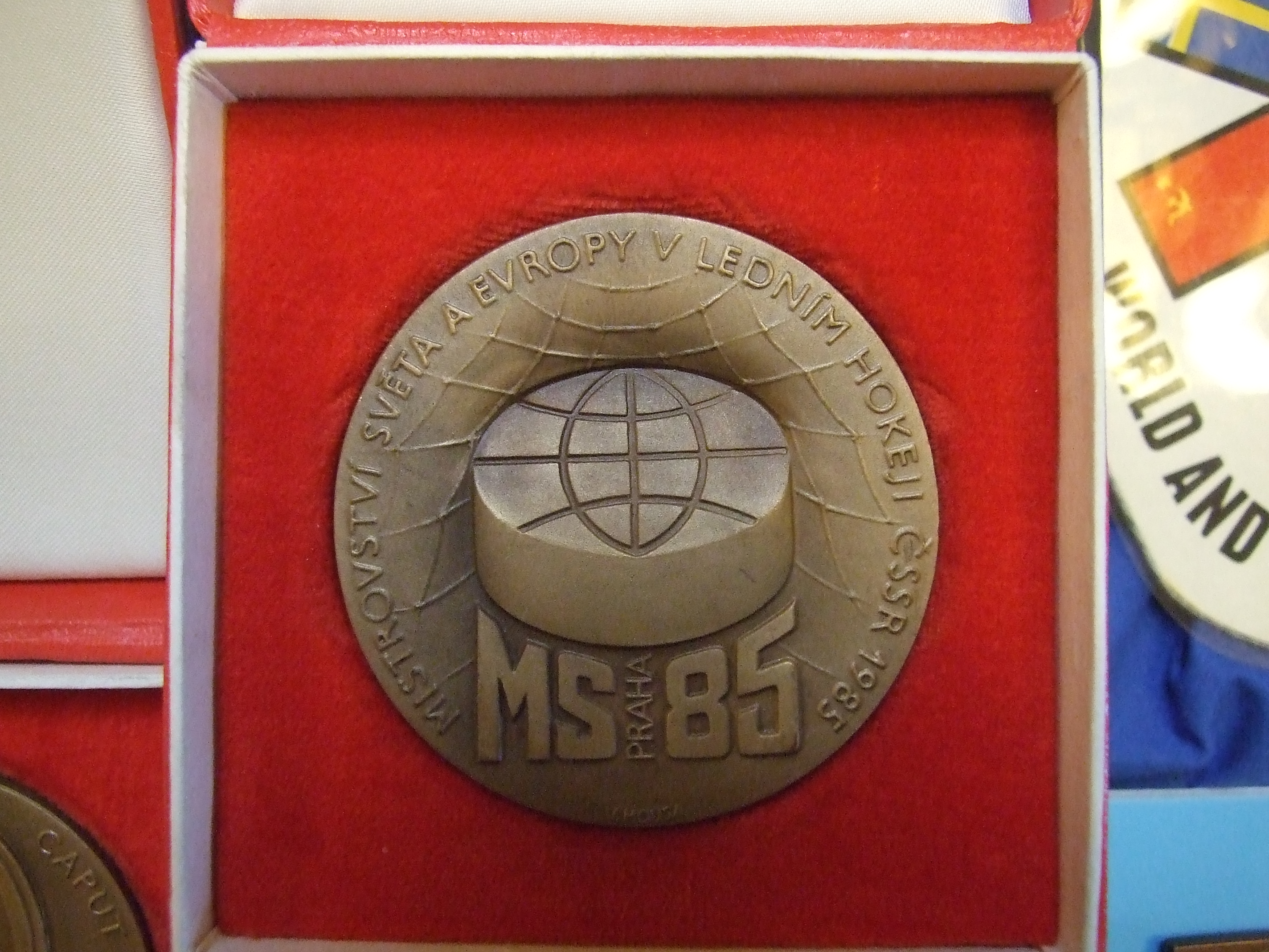 One Century Of Czech Ice Hockey Exhibition, National Museum in Prague: [1]